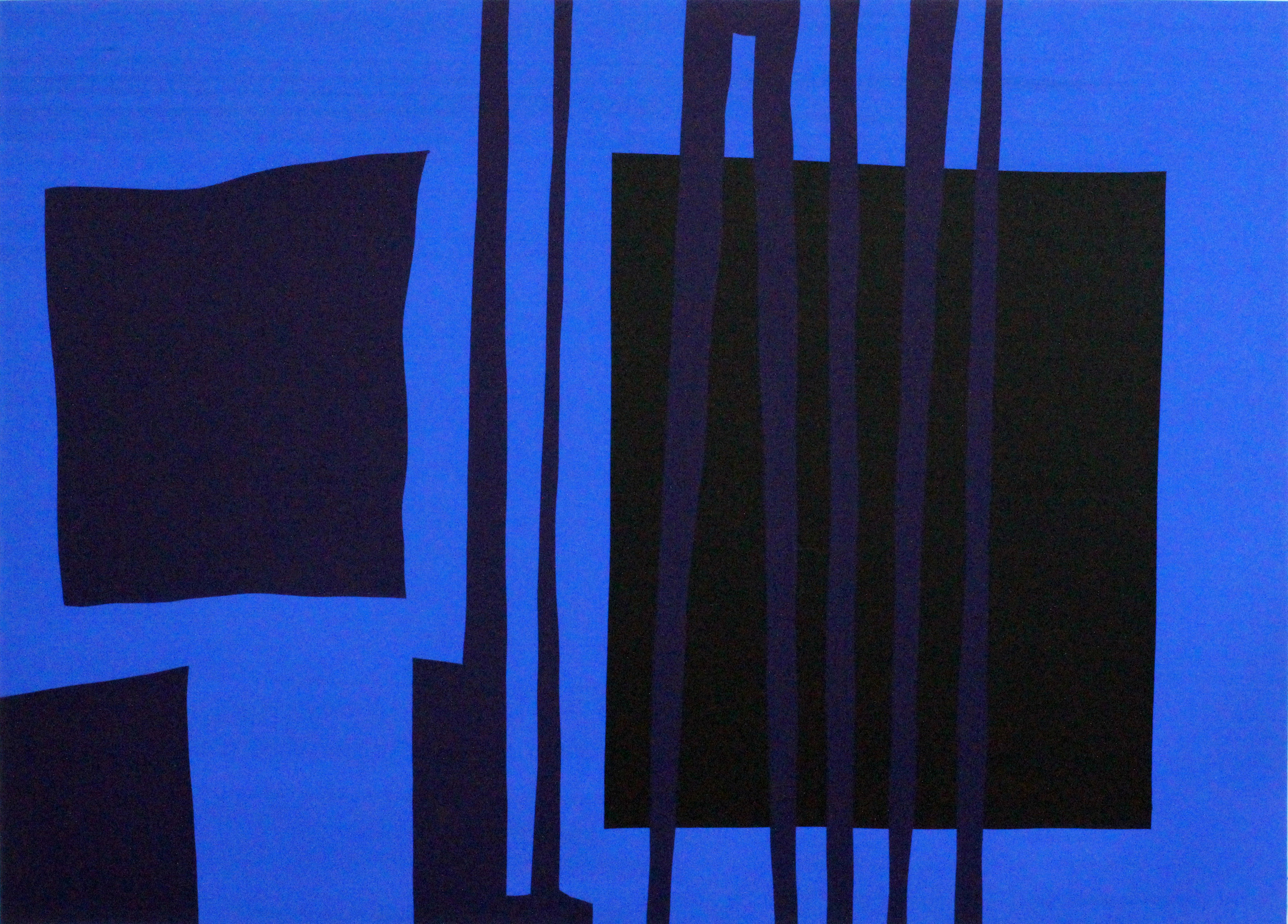 serigraphy (38,5x55 cm) by the Norwegian artist Ove Stokstad. In honour of another Norwegian artist, famous - amongst other things - for his intense blue colours in both paintings and serigraphies